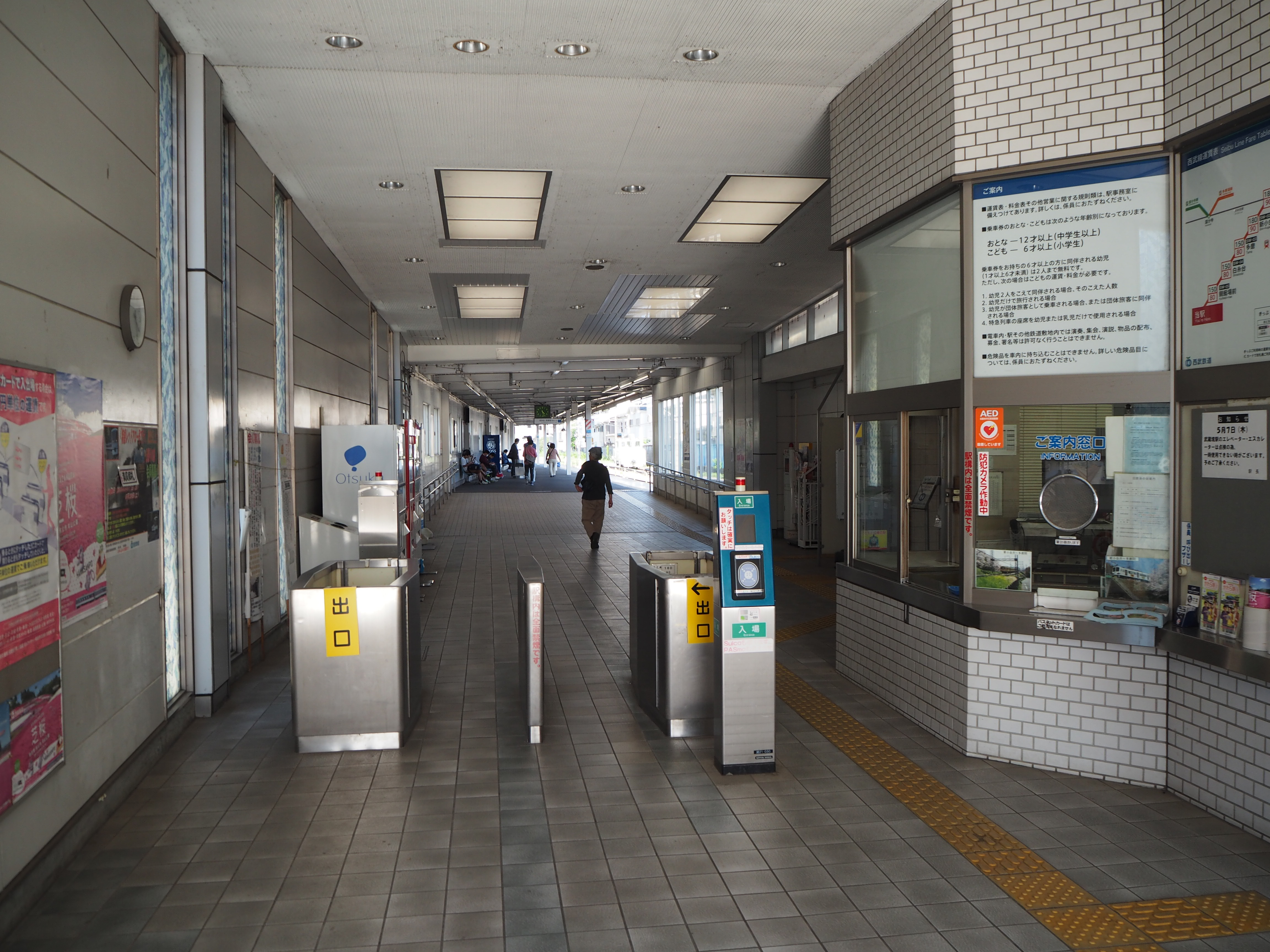 Ticket gate of Koremasa Station